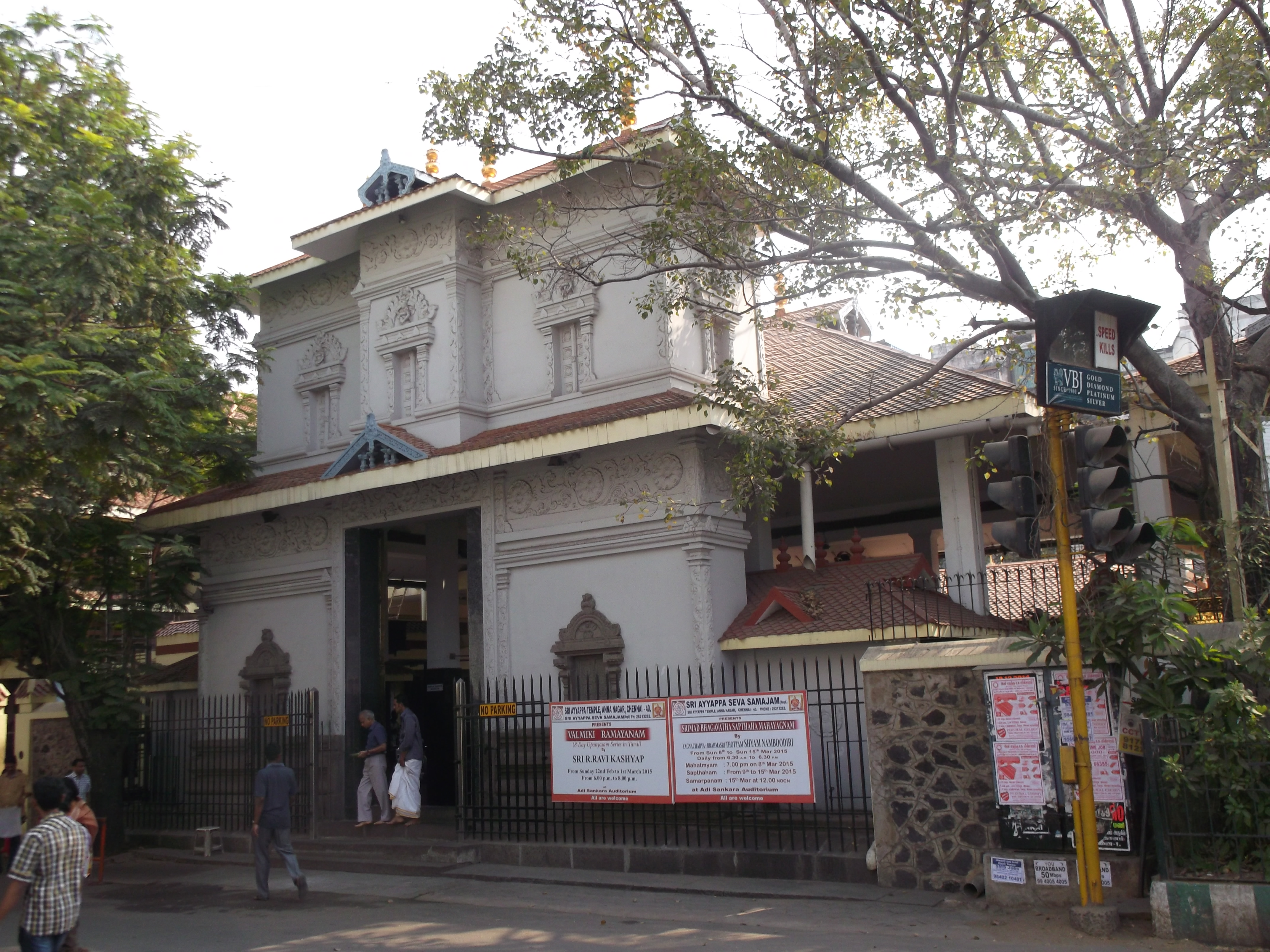 Main view of the Anna Nagar Ayyappan Koil, taken from the Second Avenue, taken on 22 February 2015 at around 9:30 am.